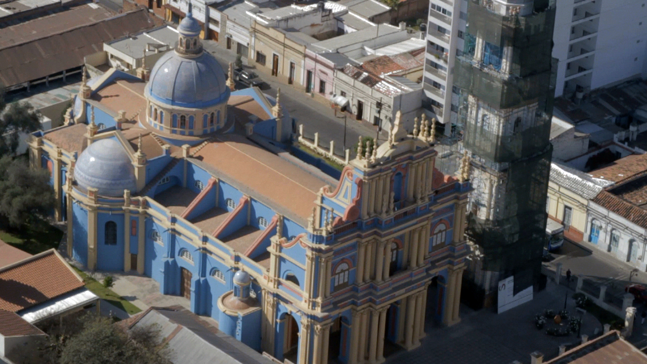 Iglesia de La Viña en la provincia de Salta, Argentina